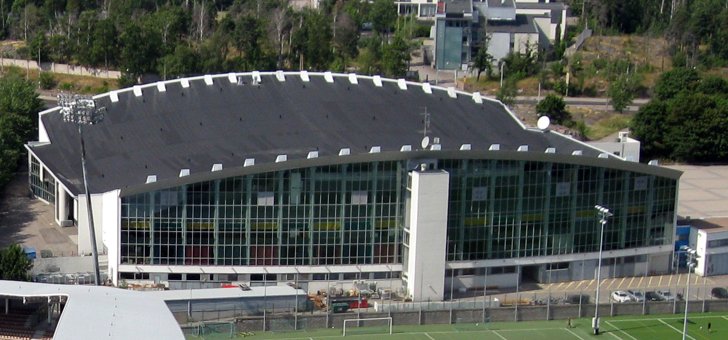 Helsinki Ice Hall, 2010.